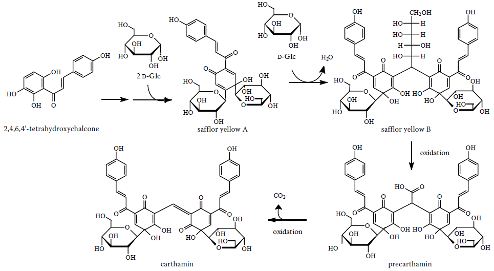 Carthamin proposed biosynthesis scheme